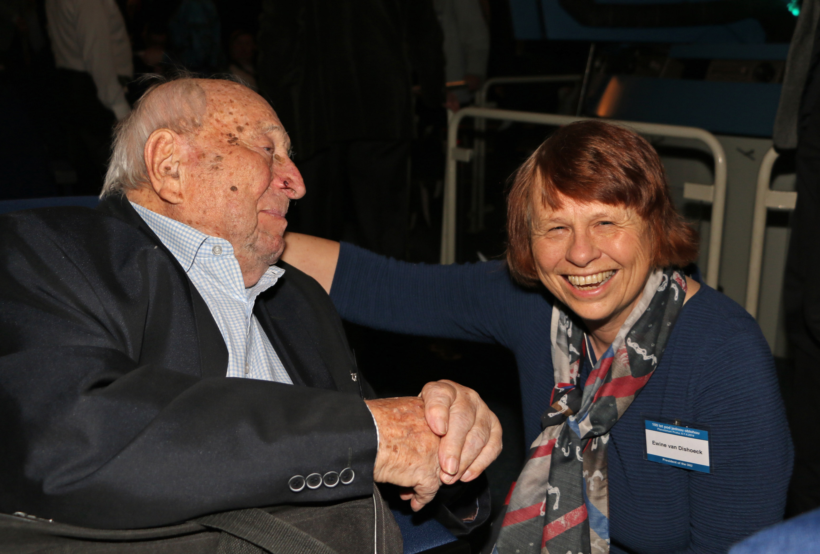 Luboš Perek, Czech astronomer, with Ewine van Dishoeck, President of the IAU.